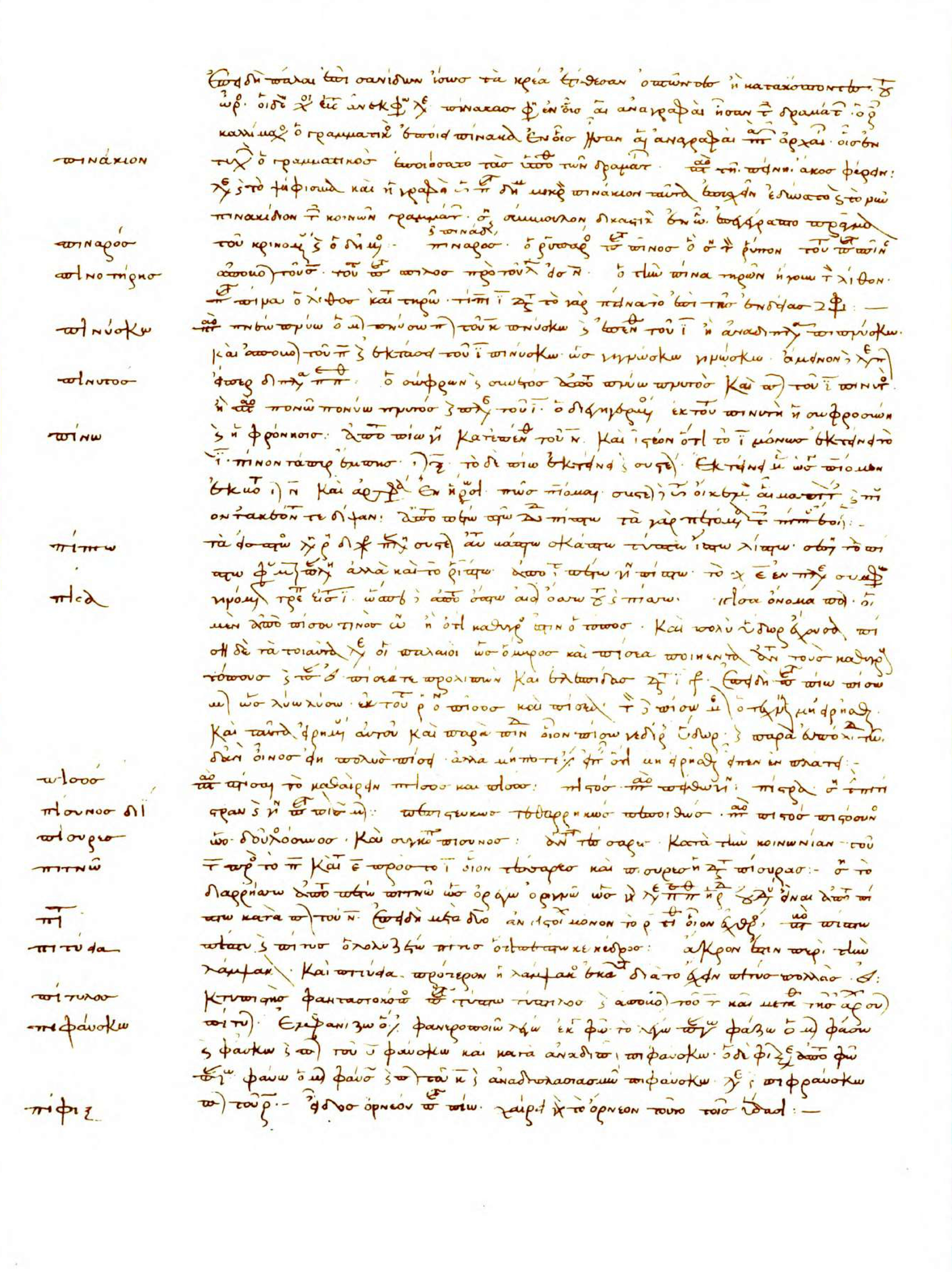 A page from the Etymologicum Magnum. This is Bodleian Library MS D'Orville 2, 240 verso. A fuller description may be found in F. Madan, A Summary Catalogue of Western Manuscripts in the Bodleian Library at Oxford, iv.38 (no. 16880)